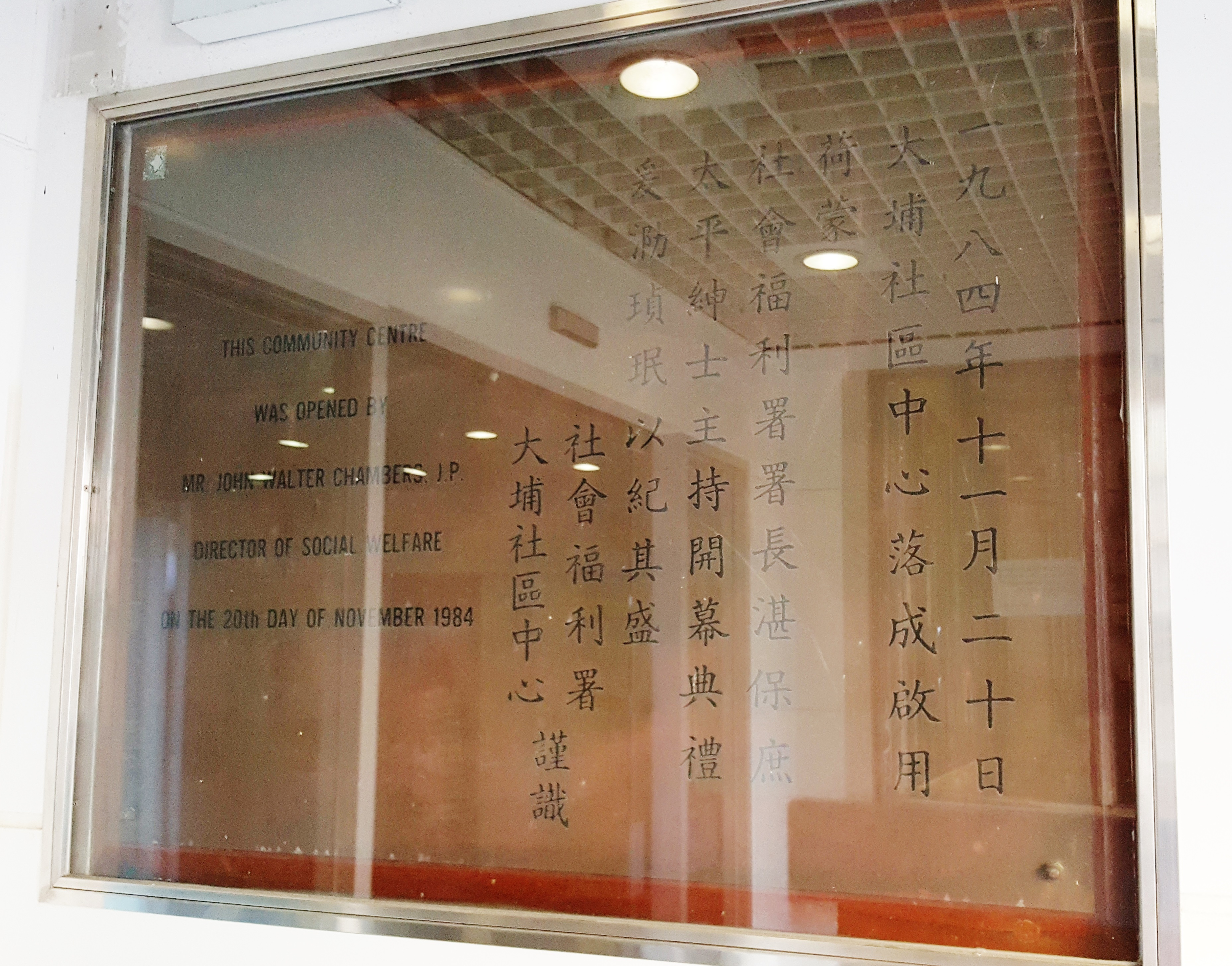 Plaque commemorating the opening of Tai Po Community Centre by Mr John Walter Chambers, J.P., Director of Social Welfare, on 20 November 1984. 中文（香港）: 大埔社區中心啟用紀念碑，由時任社會福利署署長湛保庶太平紳士主持揭幕。